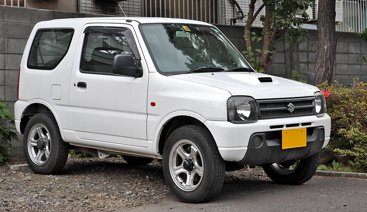 Suzuki Jimny 660 ( JB23W - 5 )